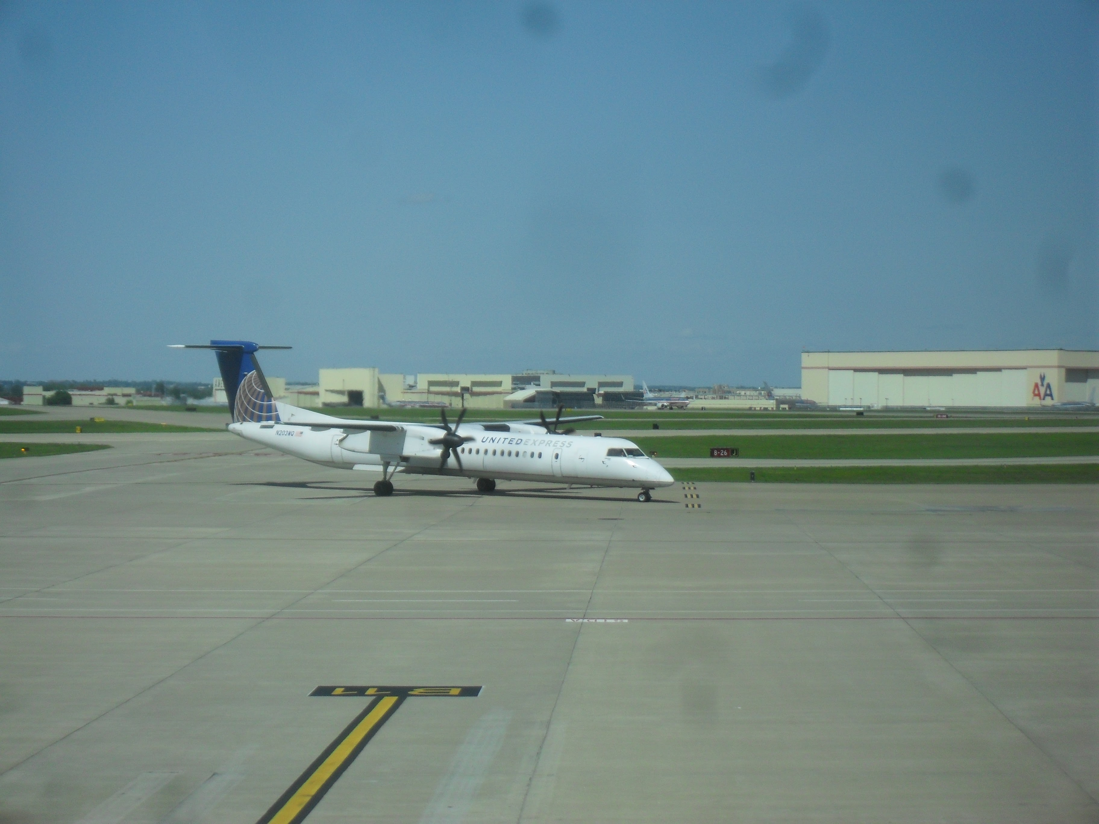 Bombardier plane